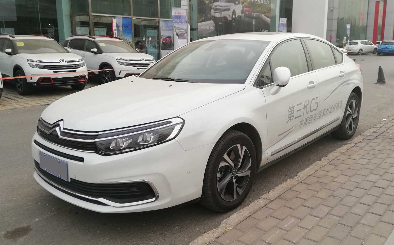 Citroën C5 II CN facelift II photographed in Beijing, China.